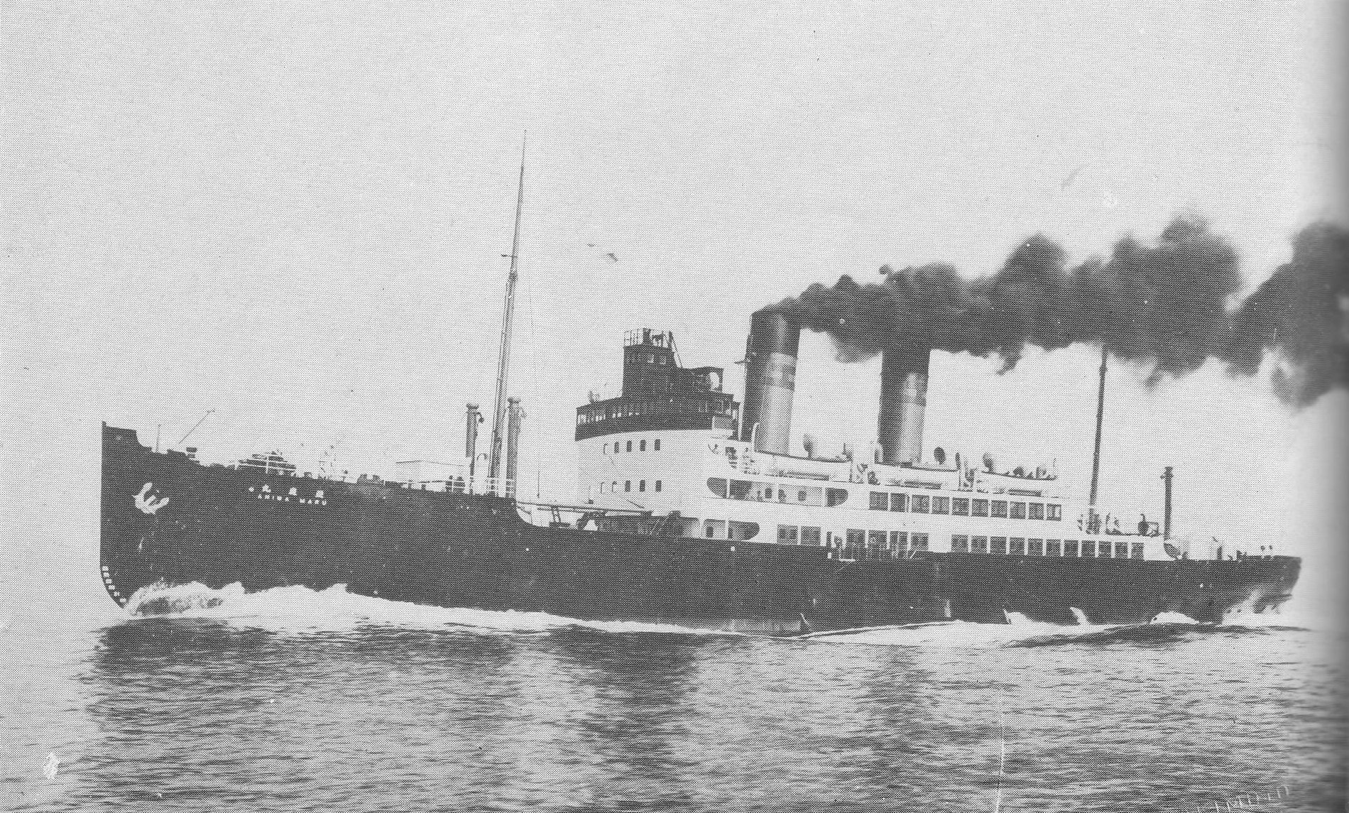 Japanese Government Railways"Aniwa Maru"